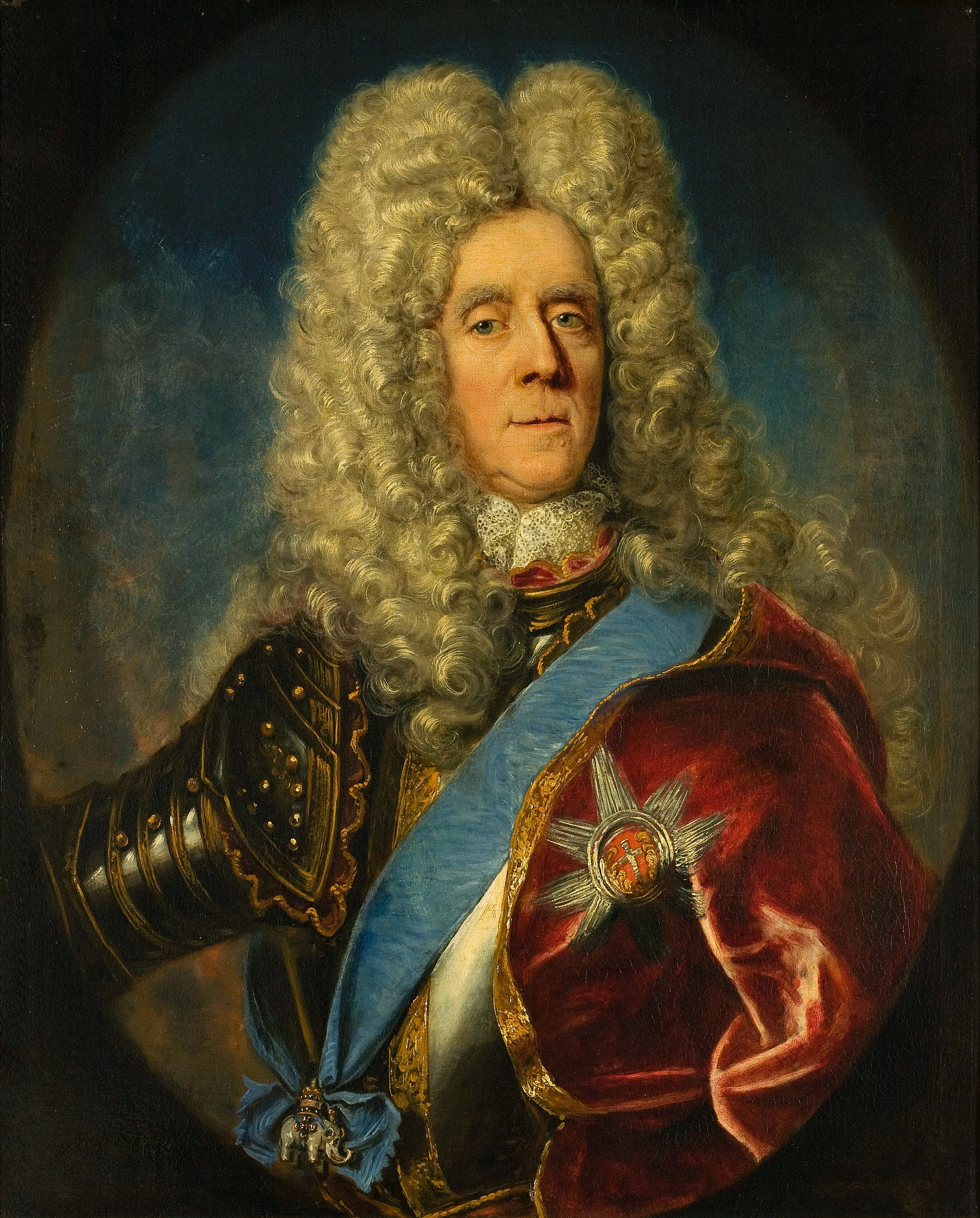 Baron Jacob II of Wassenaer Obdam (1645-1714), Lord of Wassenaar, Obdam, Hensbroek, Spierdijk, Wogmeer, Zuidwijk, Weldam, Olidam, Lage. Lieutenant General of the Cavalry, Governor of Willemstad and Hertogenbosch. Member of the Knightship of Holland and Committed-member to the States General for the Admirality of the Meuse. Mainland of Delfand and Hoogheemraad van Rijnland. Envoy to England, to France, to the Elector of Brandenburg / King of Prussia, to the Bishop of Munster and to the Elector of the Palatine. Knight in the Order of the White Elephant (1703).